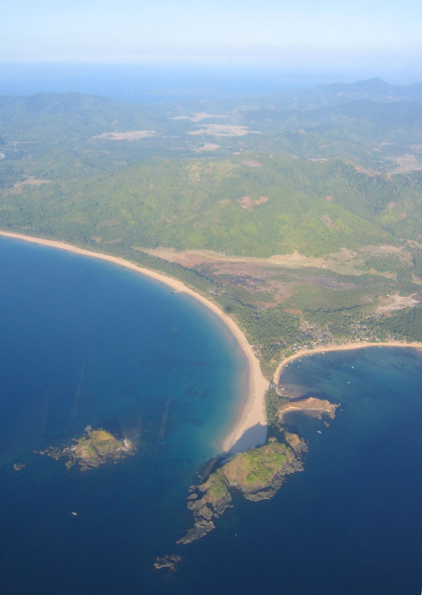 Aerial view of the cape between Nacpan and Calitang Beaches in Barangay Bucana in the North part of El Nido municipality, Palawan, Philippines.